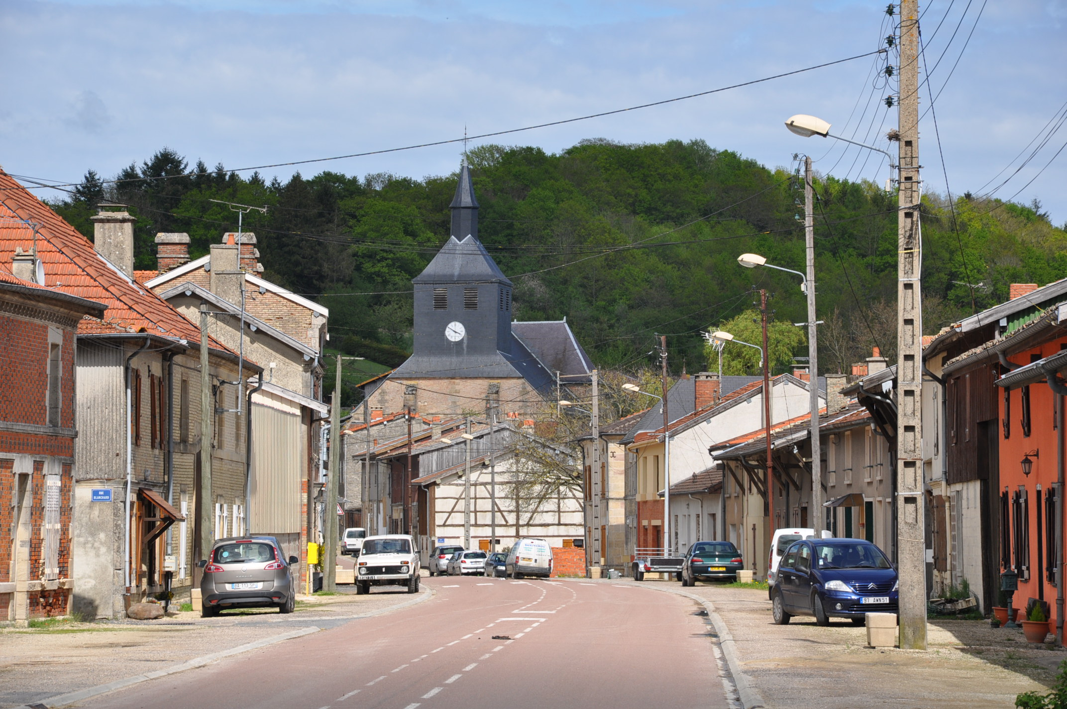 Main Street (Grande Rue) in Passavant-en-Argonne (Marne department, Champagne-Ardennes region, France).